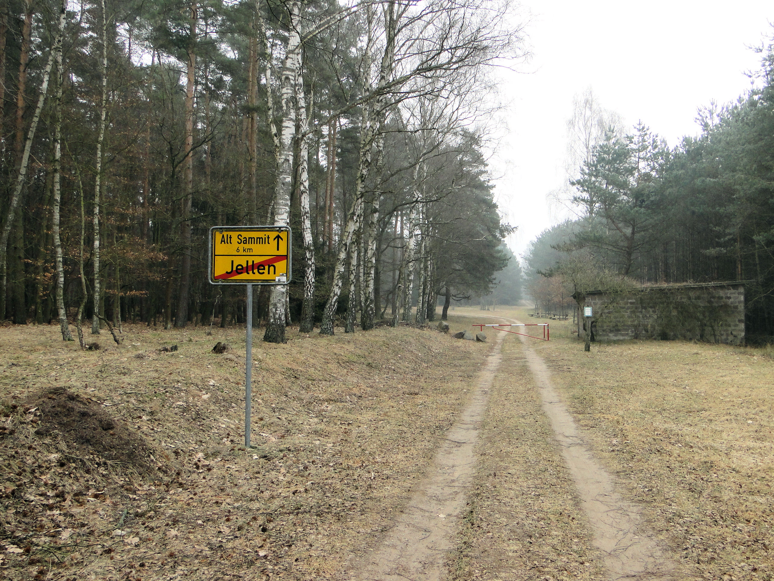 Way from Jellen to Alt Sammit with barrier in Jellen, district Parchim, Mecklenburg-Vorpommern, Germany